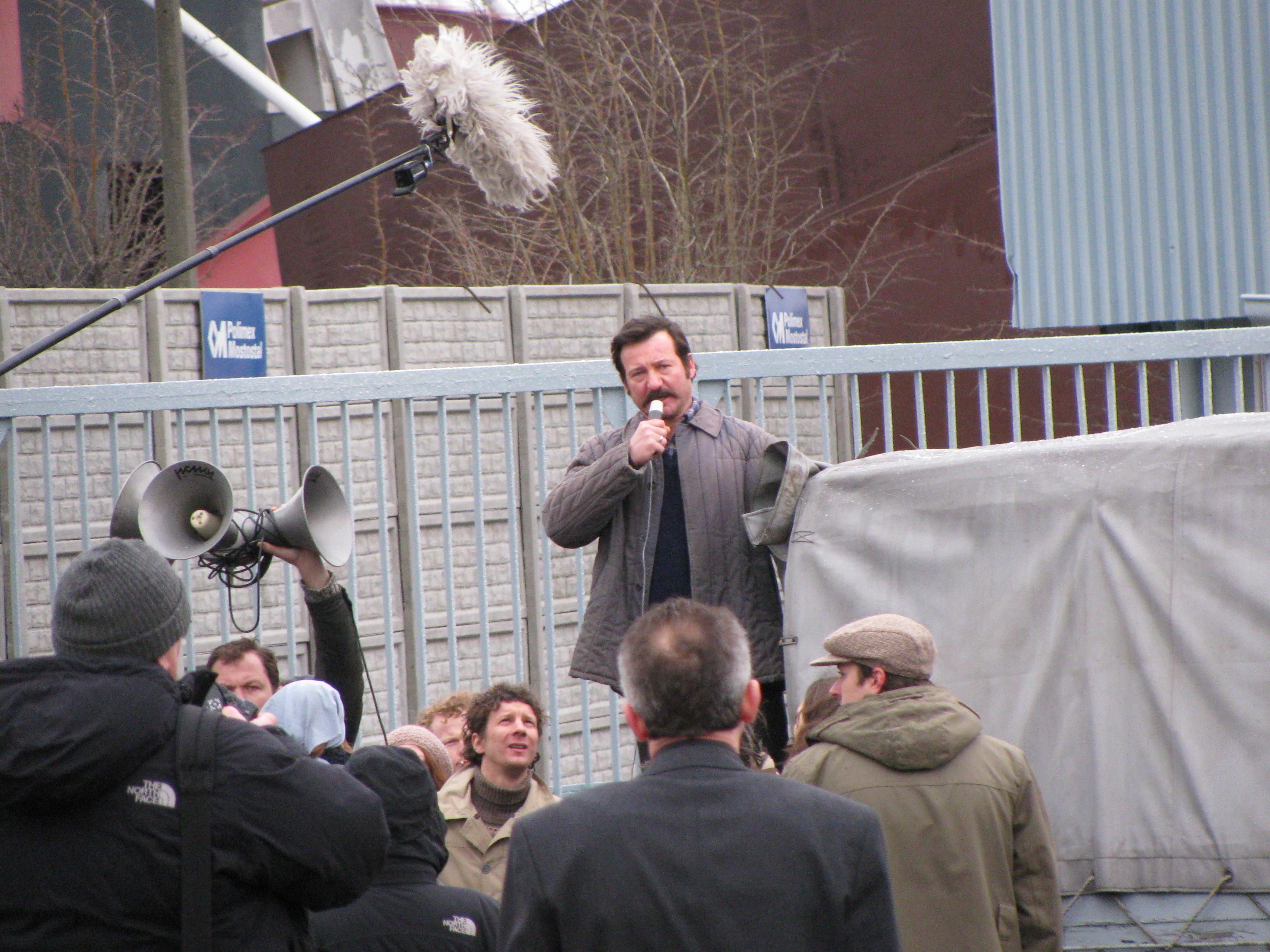 "Wałęsa" the movie set in Gdańsk. Robert Więckiewicz as Lech Wałęsa.